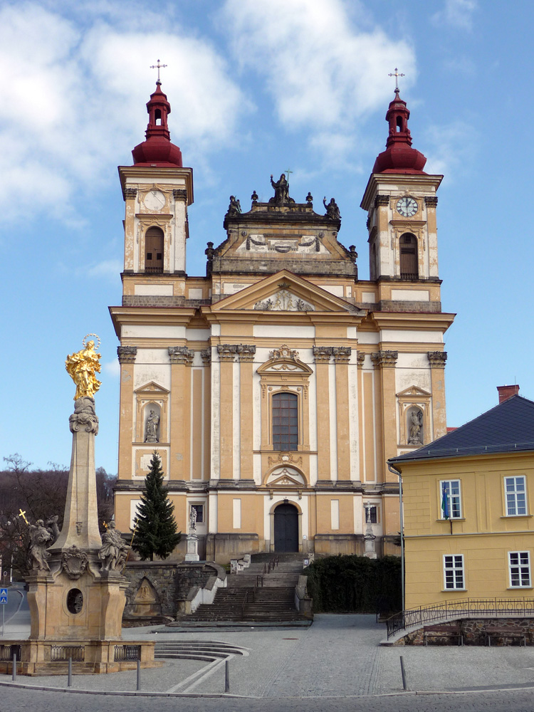 Sternberk, Church of the Annunciation and Marian Column, Czech Republic